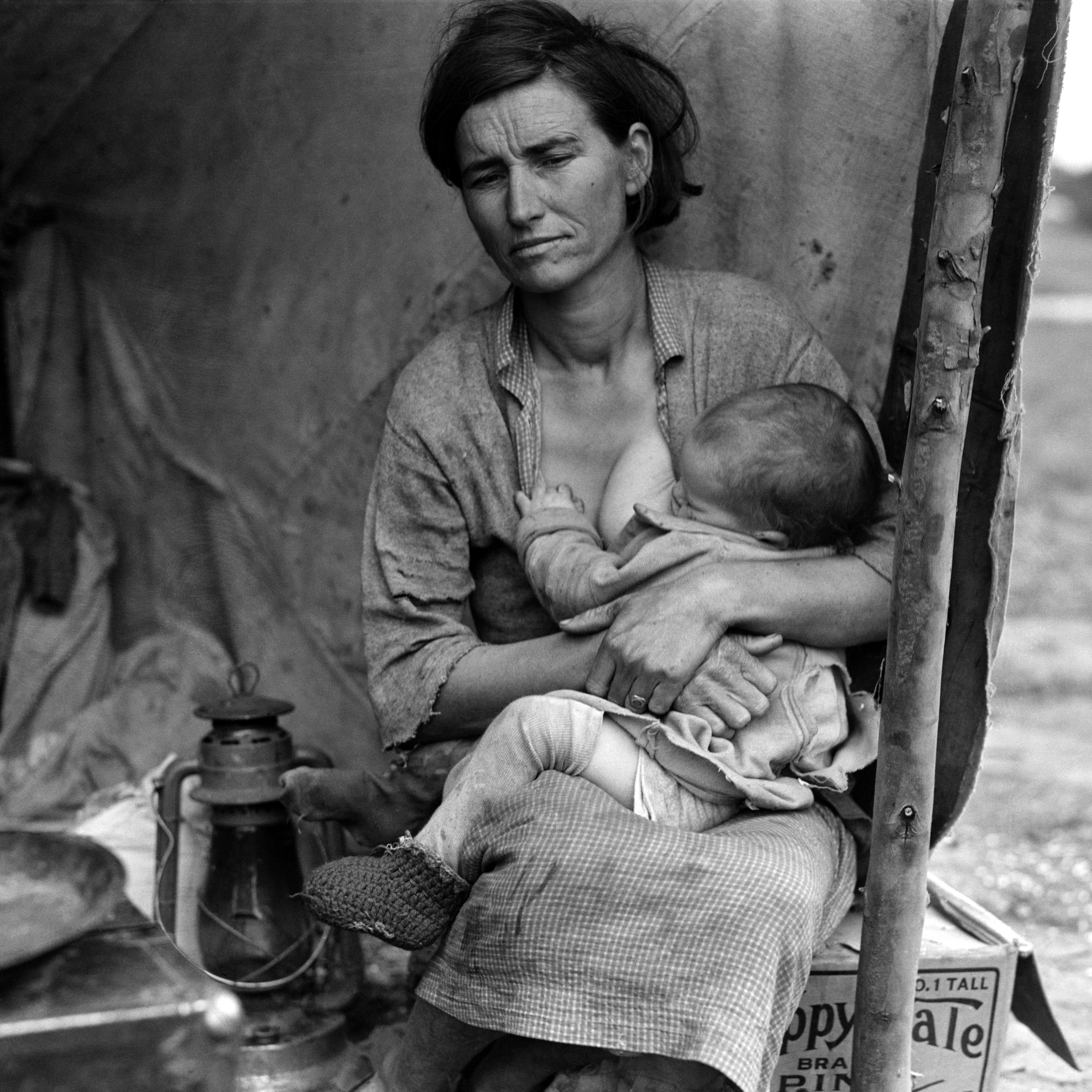 Photograph shows Florence Thompson with one of her children as part of the "Migrant Mother" series. For background information, see "Dorothea Lange's Migrant Mother' photographs ..."